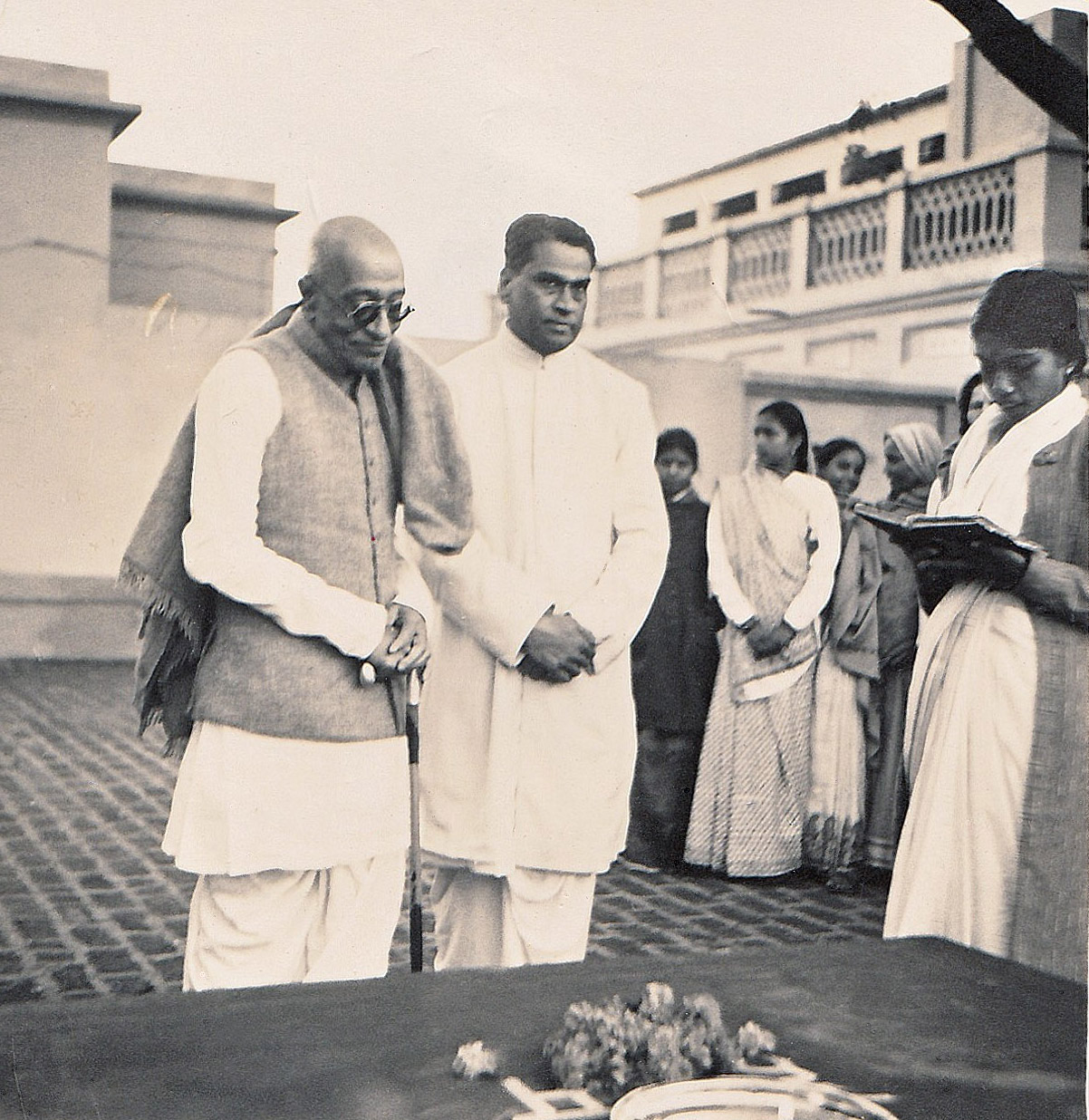 Governor-General C. Rajagopalachari (left) with his longtime friend V. A. Sundaram standing in front of the Gandhi Memorial stone outside of Sundaram's house (background) on the grounds of Benares Hindu University in Varanasi, 1948. They commemorate the recently deceased Gandhi. Reading from the Holy Geeta (right) is Sundaram's daughter Saraswati. In the background in a white sari is Satya Malaviya, granddaughter of Madan Mohan Malaviya.